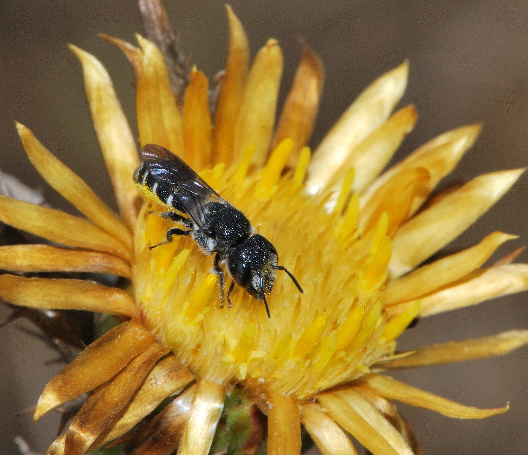 Female Heriades truncorum foraging on Carlina curetum, Mount Carmel, Israel, August 14, 2010.